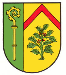 Coat of arms of Hilst